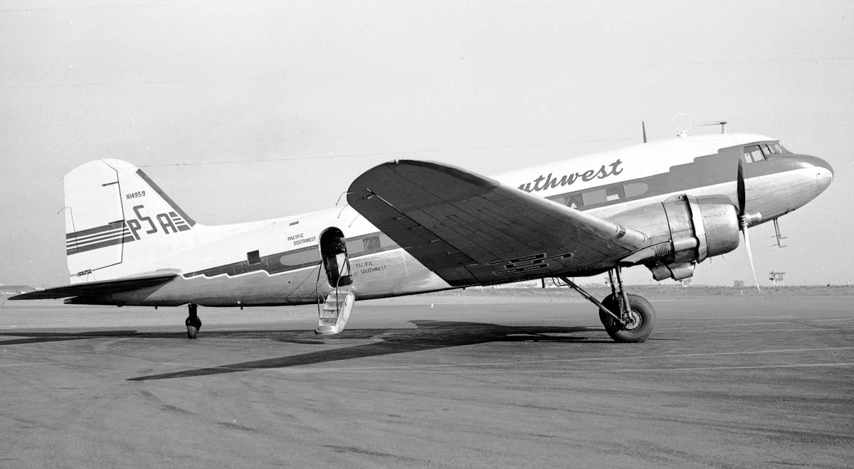 At Oakland in August 1952 at 6PM.